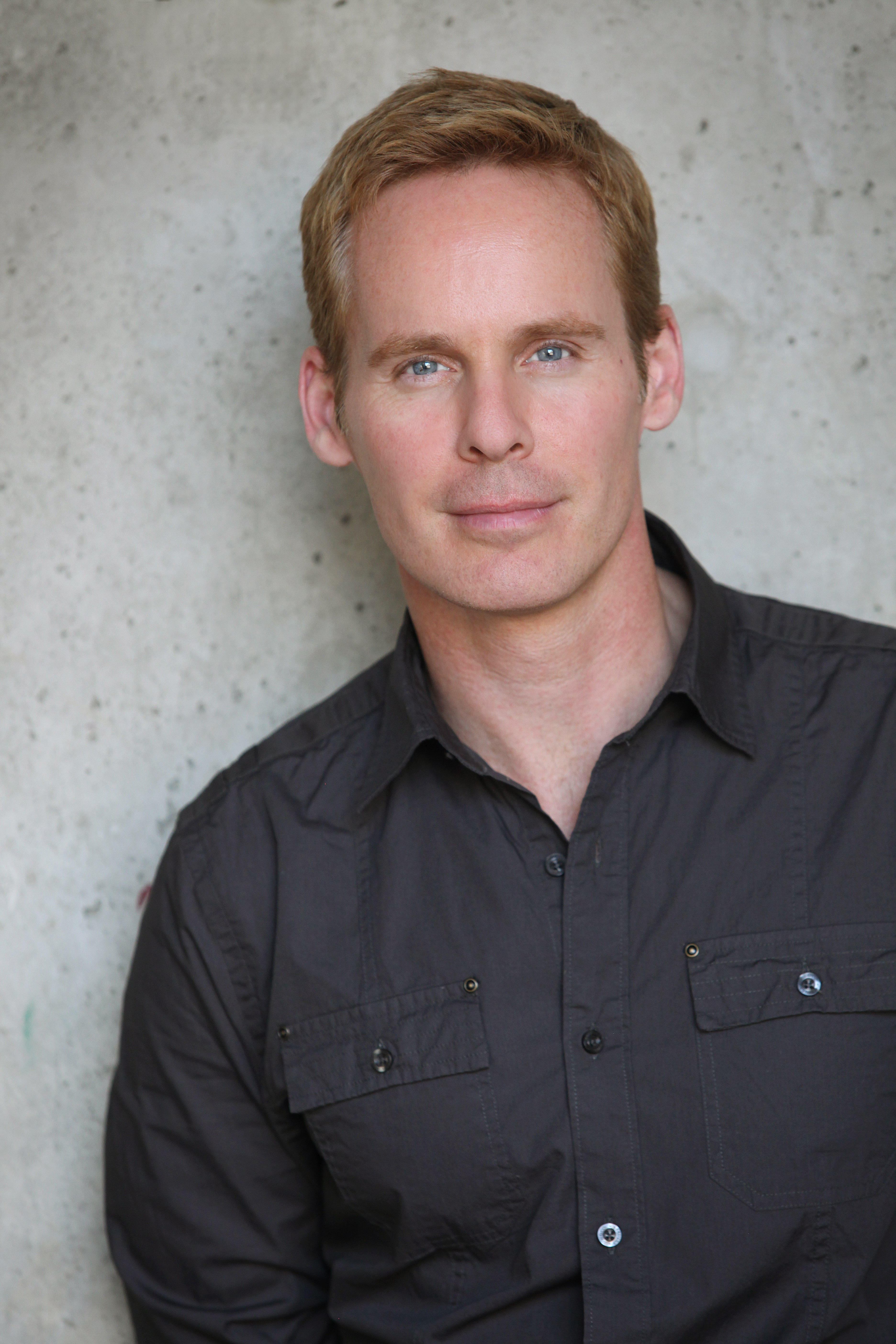 David Orth, Actor, Voice Over